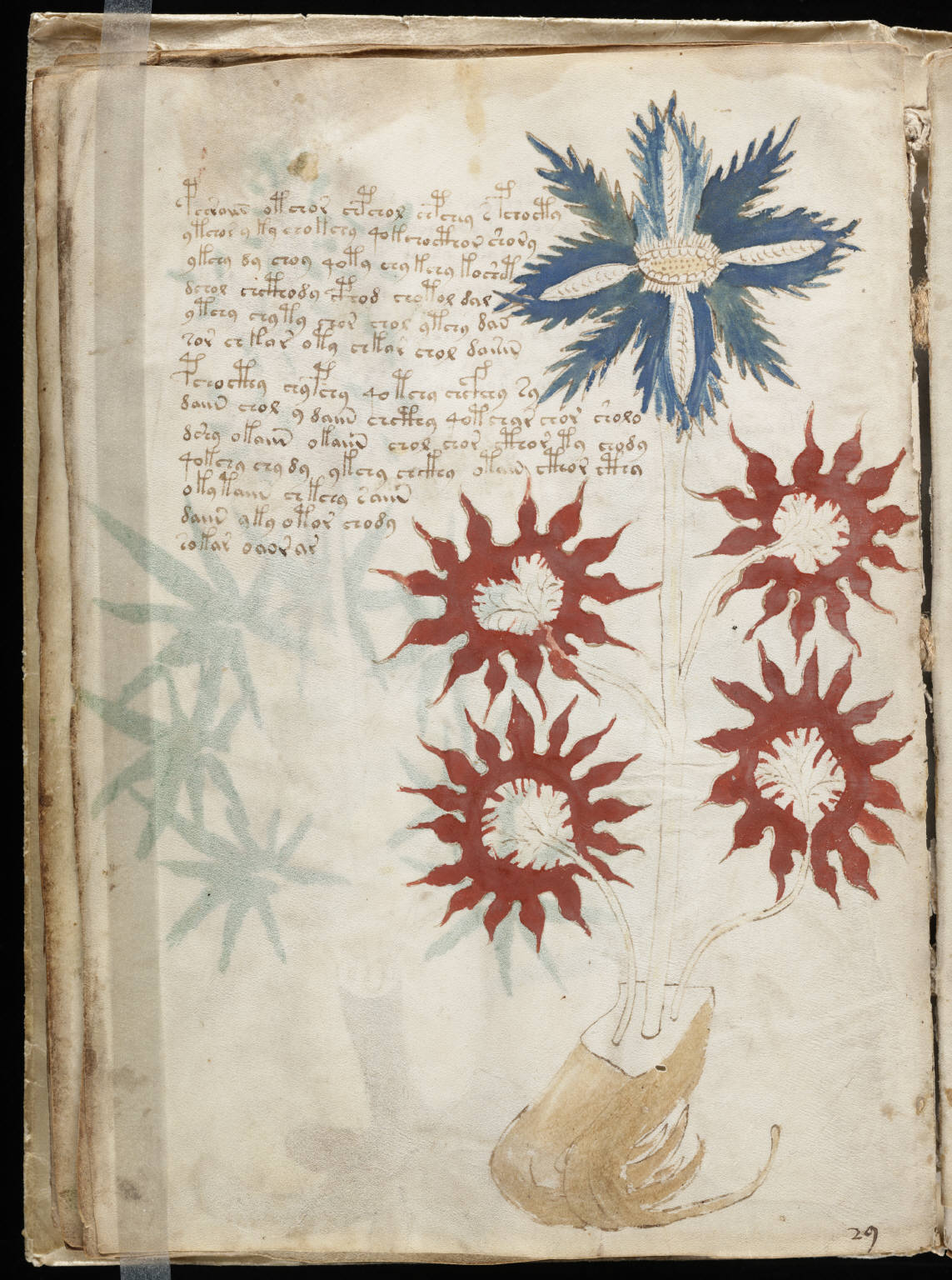 A page from the mysterious Voynich manuscript, which is undeciphered to this day.